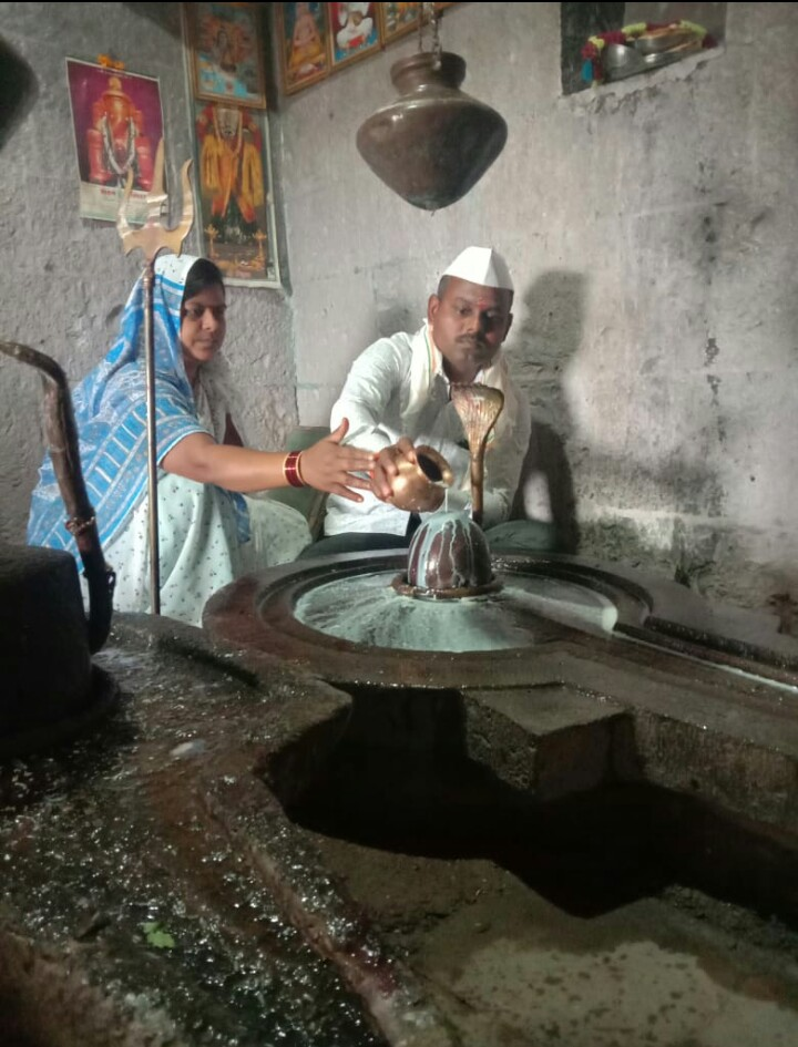 Mahashivratri is the festival celebrated by devotees for Lord Shiva the most powerful Hindu God. the night celebrated as the marriage of Shiva and parvathi the Hindu goddess . Lord Shiva gave blessing to the devotees who are wake up all the night and sings songs of Shiva in the temple. Chanted with the words OM NAMAH SHIVAY...Husband and wife both at a time perform the worhip of lord Shiva with offerings of Milk, flowers and sp. three leaves tree.